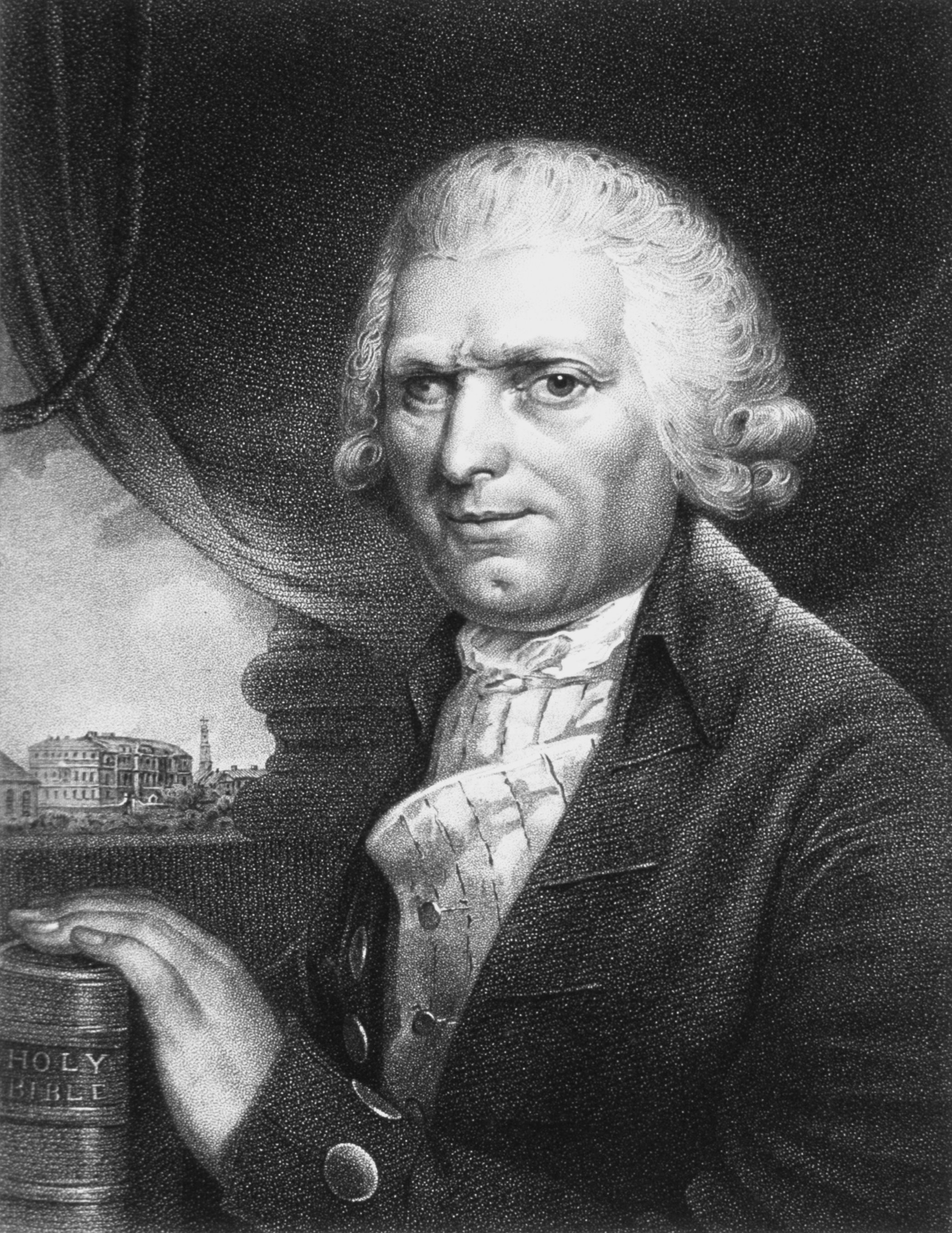 William Hey (23 August 1736 – 23 March 1819)